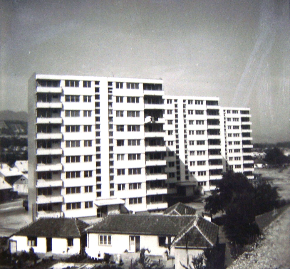 1963 Skopje earthquake: Three residential towers in Taftalidze, a gift from the people and government of Romania, 1965 This media file is produced by Wikipedian in Residence in Category:Wikipedian in Residence at DARM in 2016.